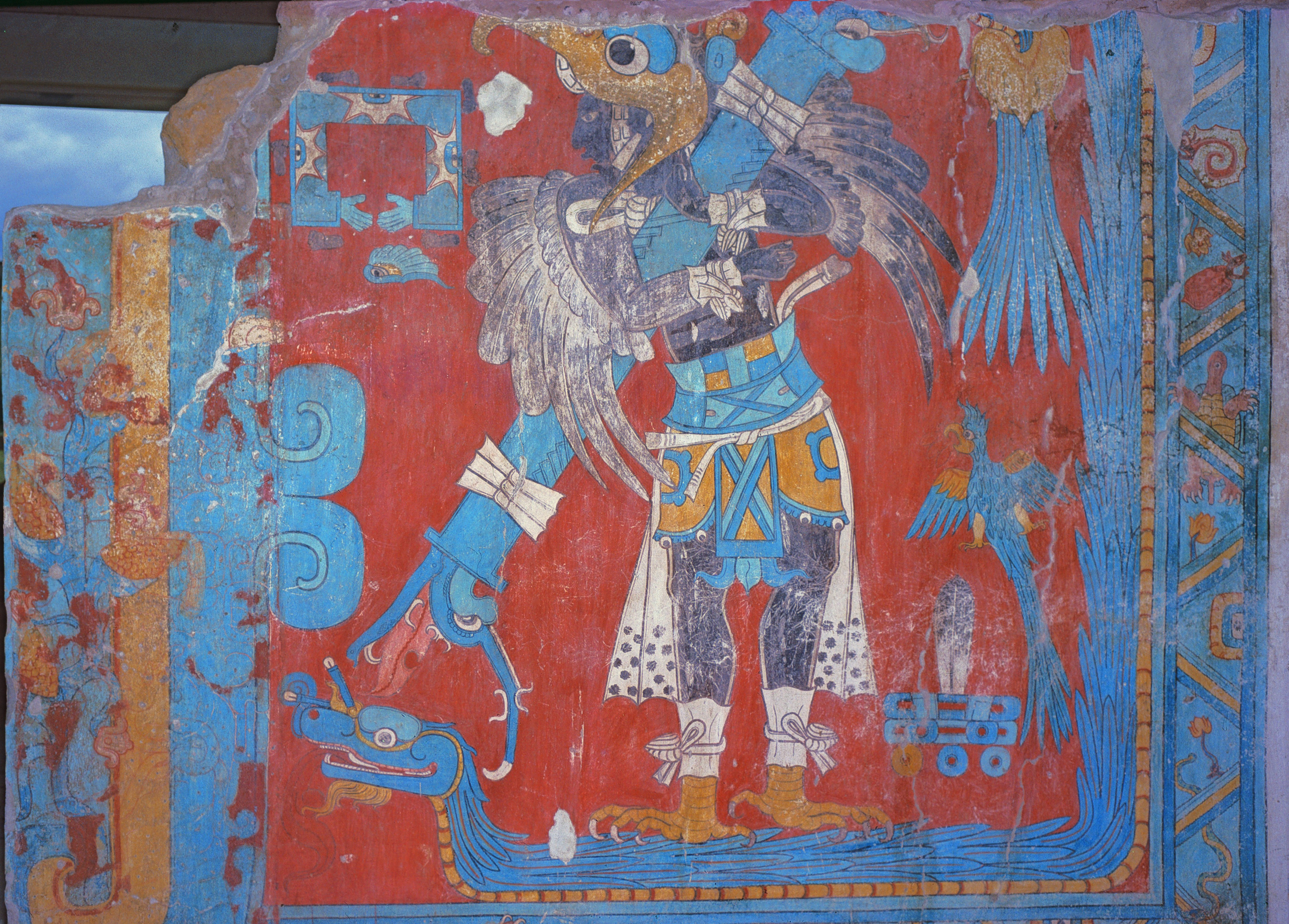 Cacaxtla, Tlaxcala, Mexico: Room 1, right mural